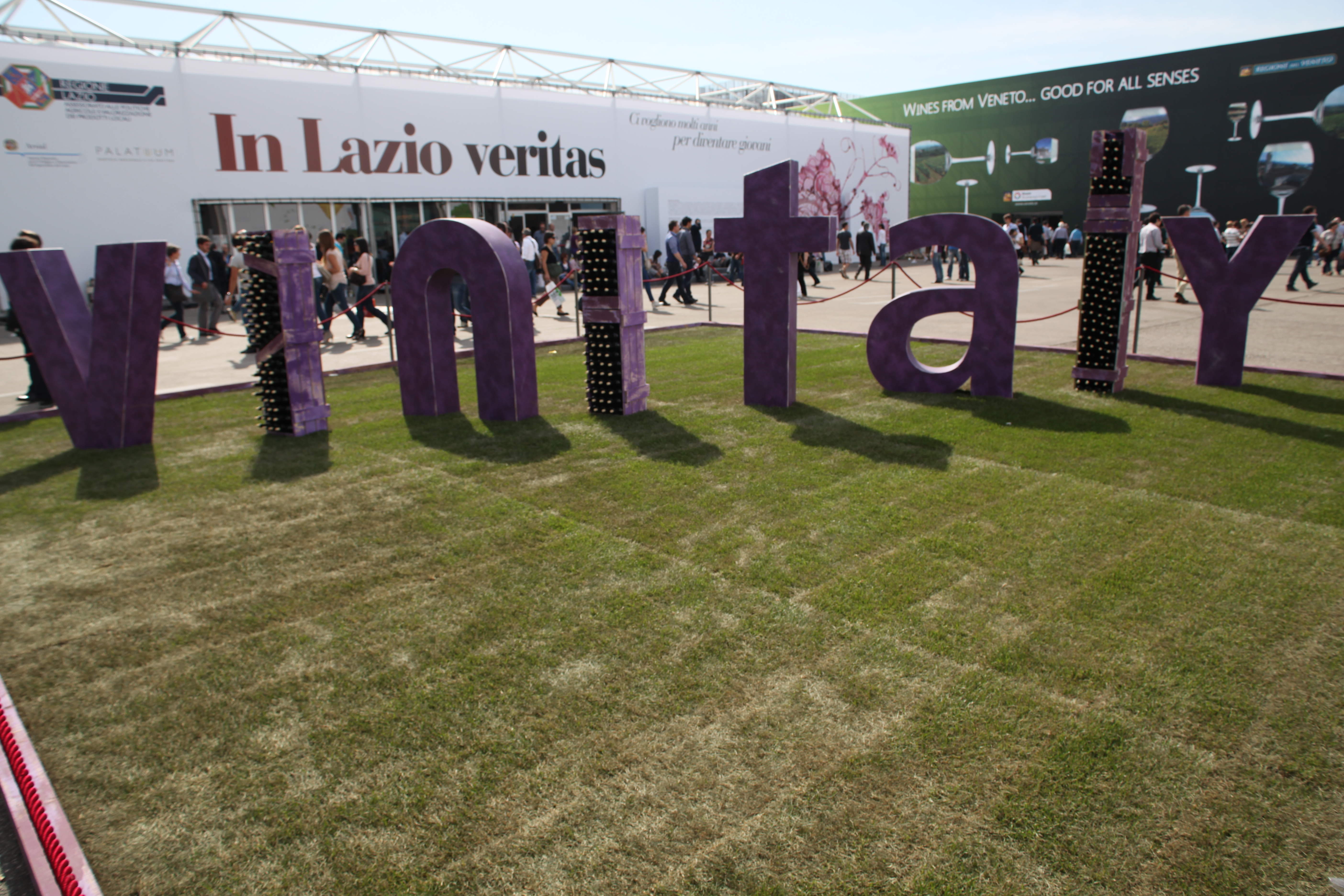 Outdoor display for the Vinitaly 2011 wine and spirit expo in Verona, Italy.